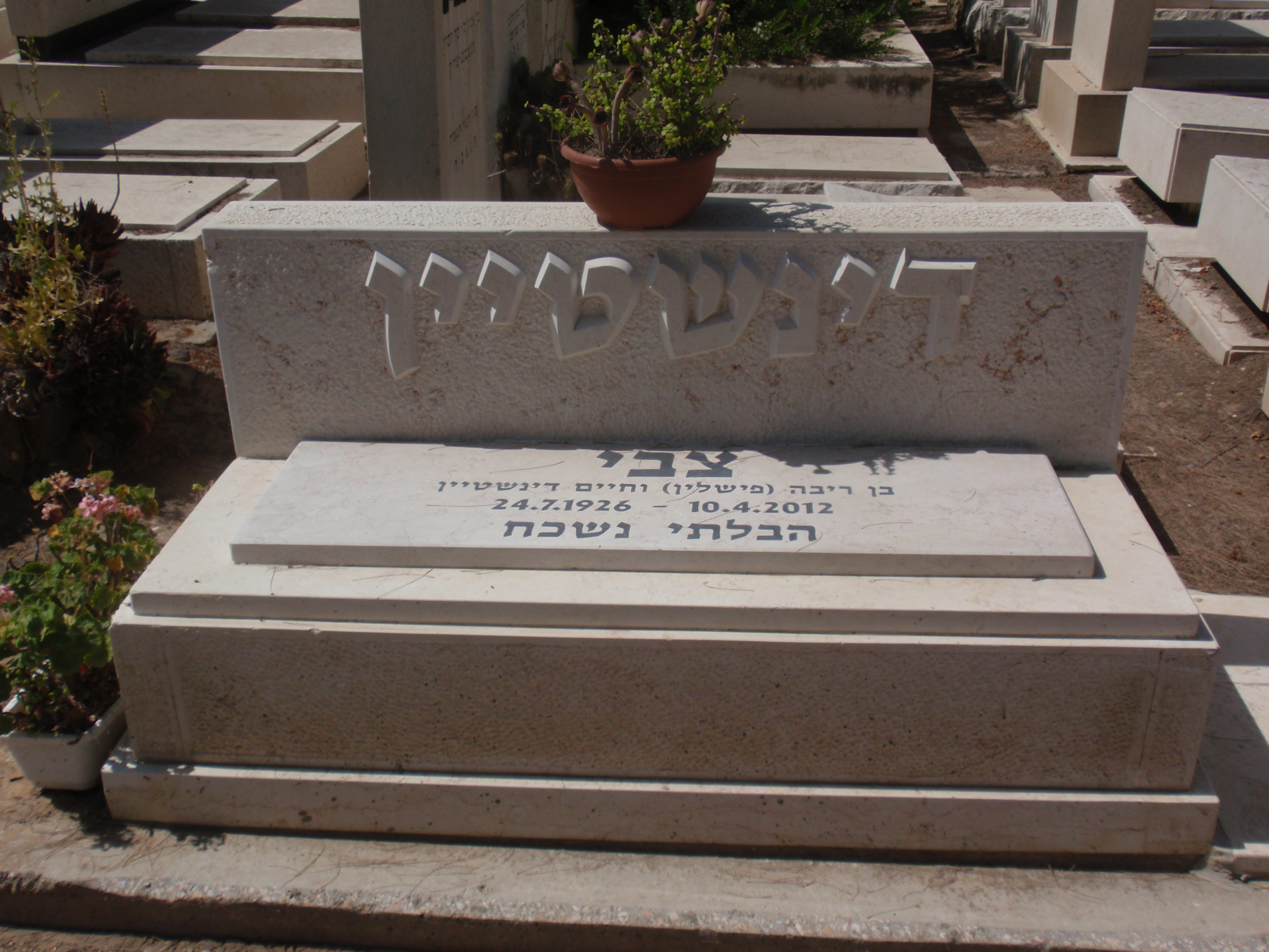 Tombstone of Zvi Dinstein at Kiryat Shaul cemetery, Tel Aviv, Israel